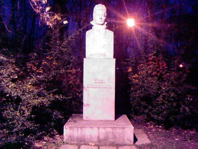 Eliza Orzeszkowa bust in Warsaw at night